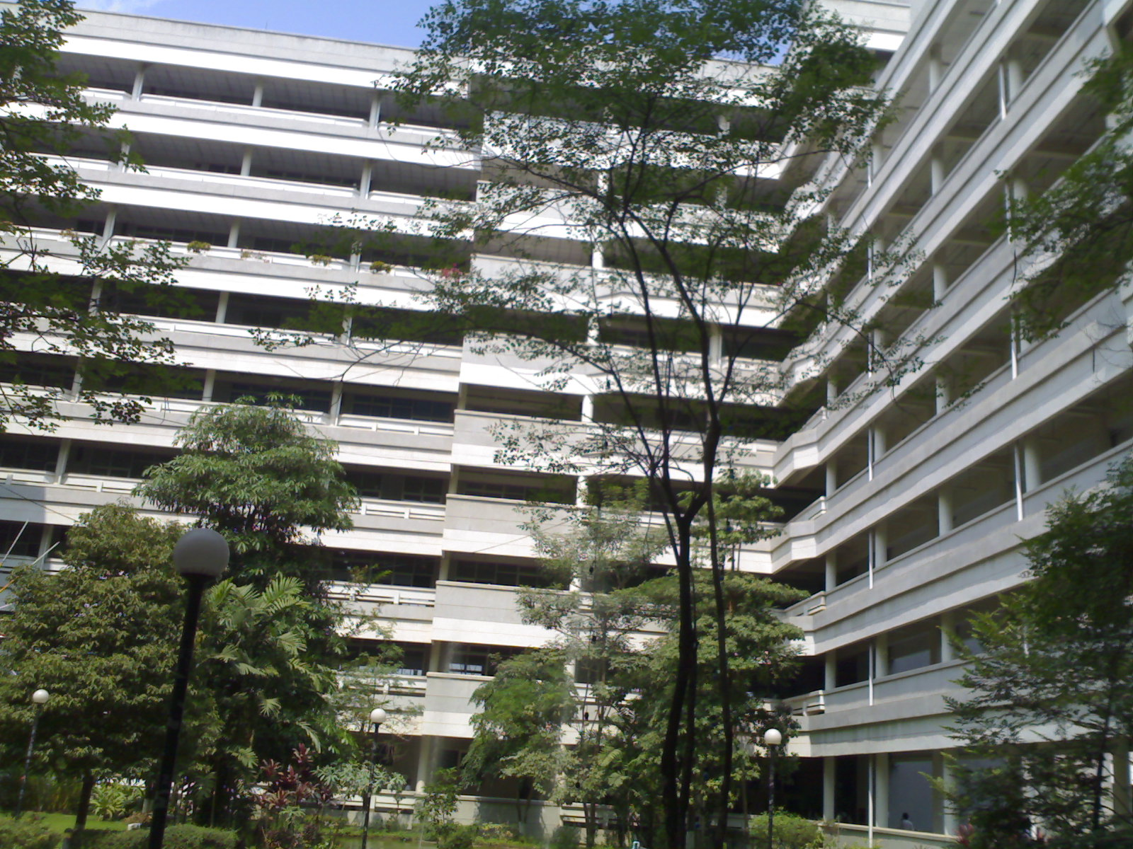 North_Wing_Entech_su